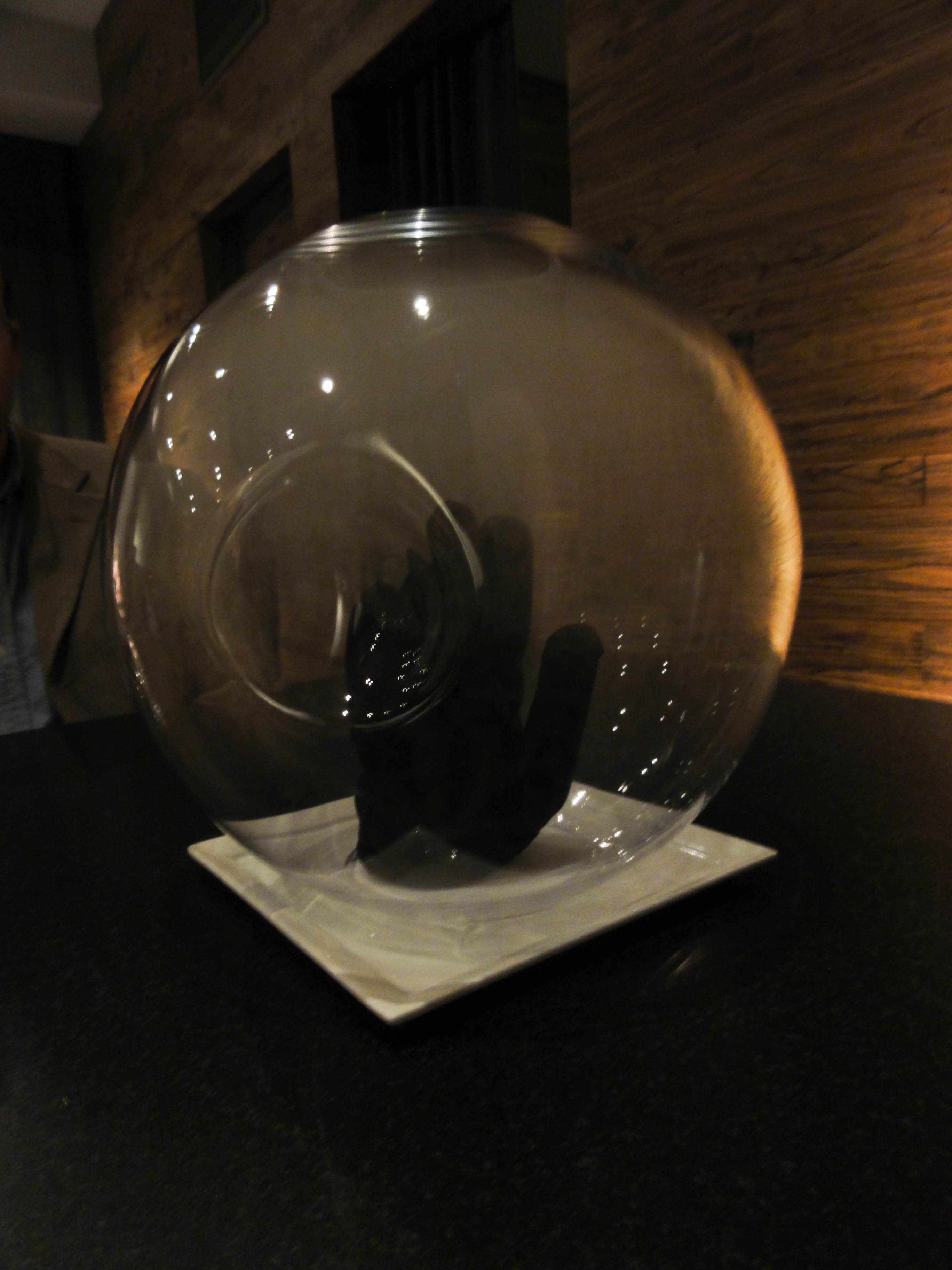 Named after a Spinal Tap album. You smell the smoke and the leather of the glove while eating the glove-shaped chocolate (not shown)